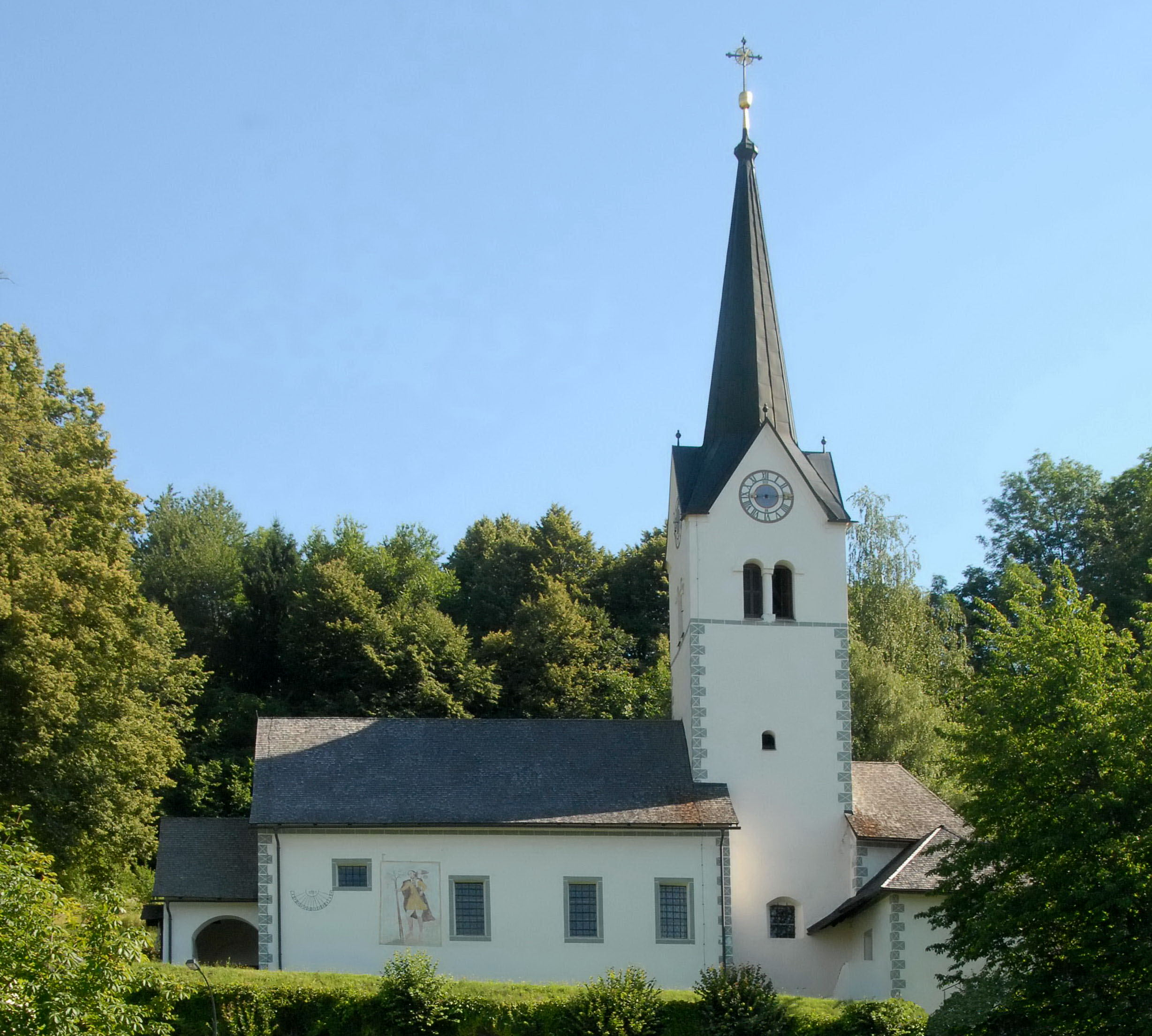 Parish church Saint Martin in Sankt Martin, municipality Techelsberg, district Klagenfurt Land, Carinthia, Austria, EU